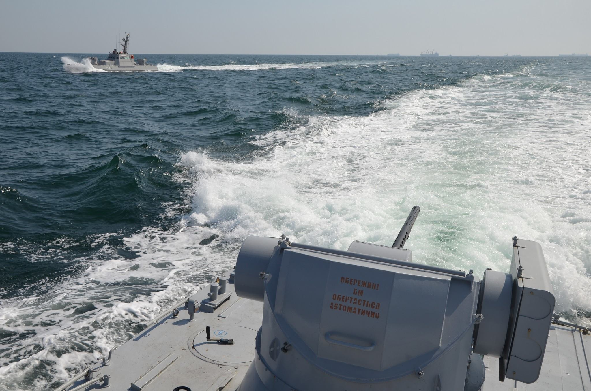 Ukrainian Gyurza-M boats in the Black sea